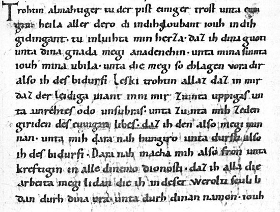 Otlohs Gebet (Otloh's Prayer), old Bavarian text from 11th century, written by Otloh of St. Emmeram.